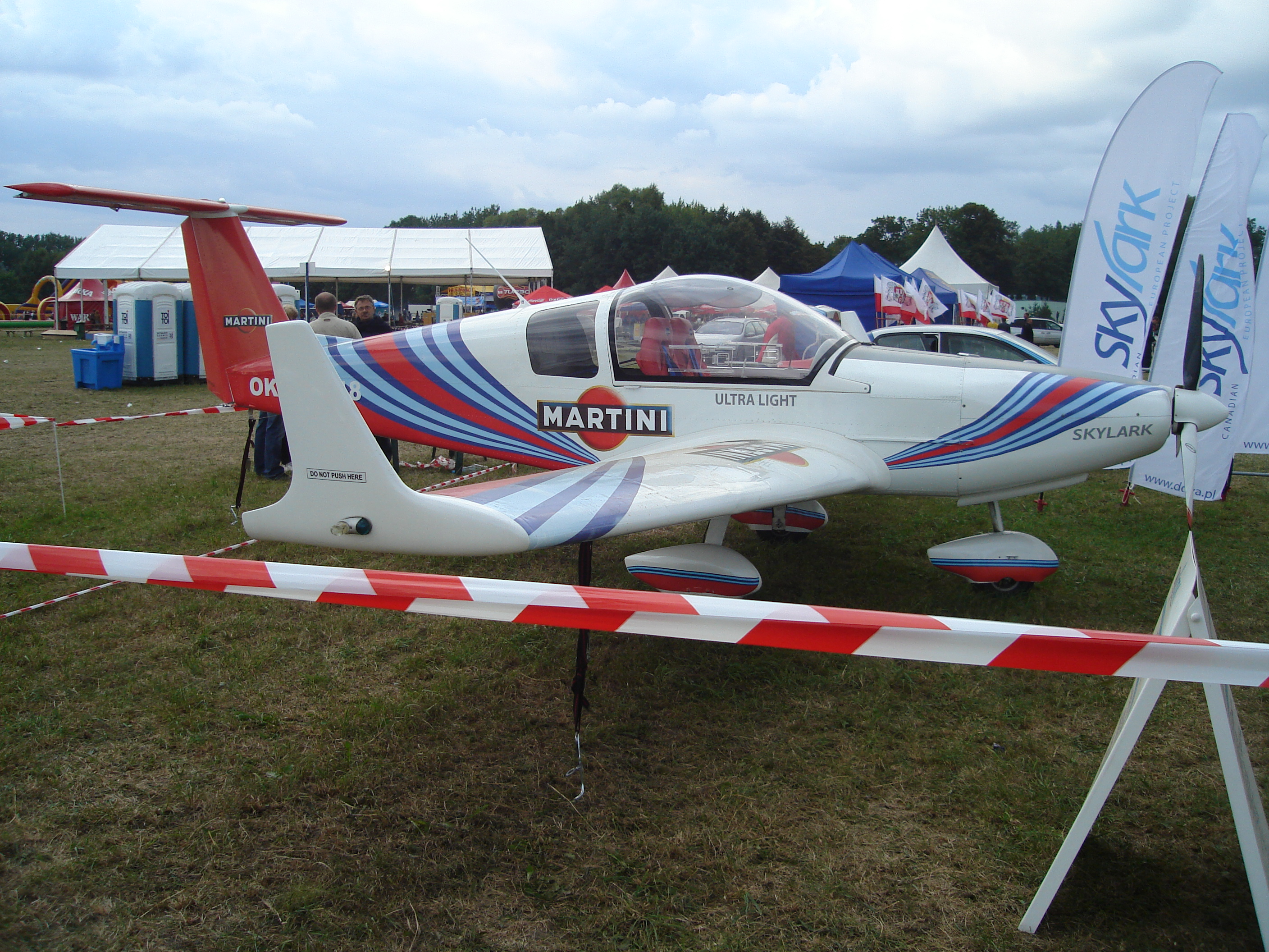 Picture of Skylark, Radom Air Show 2007